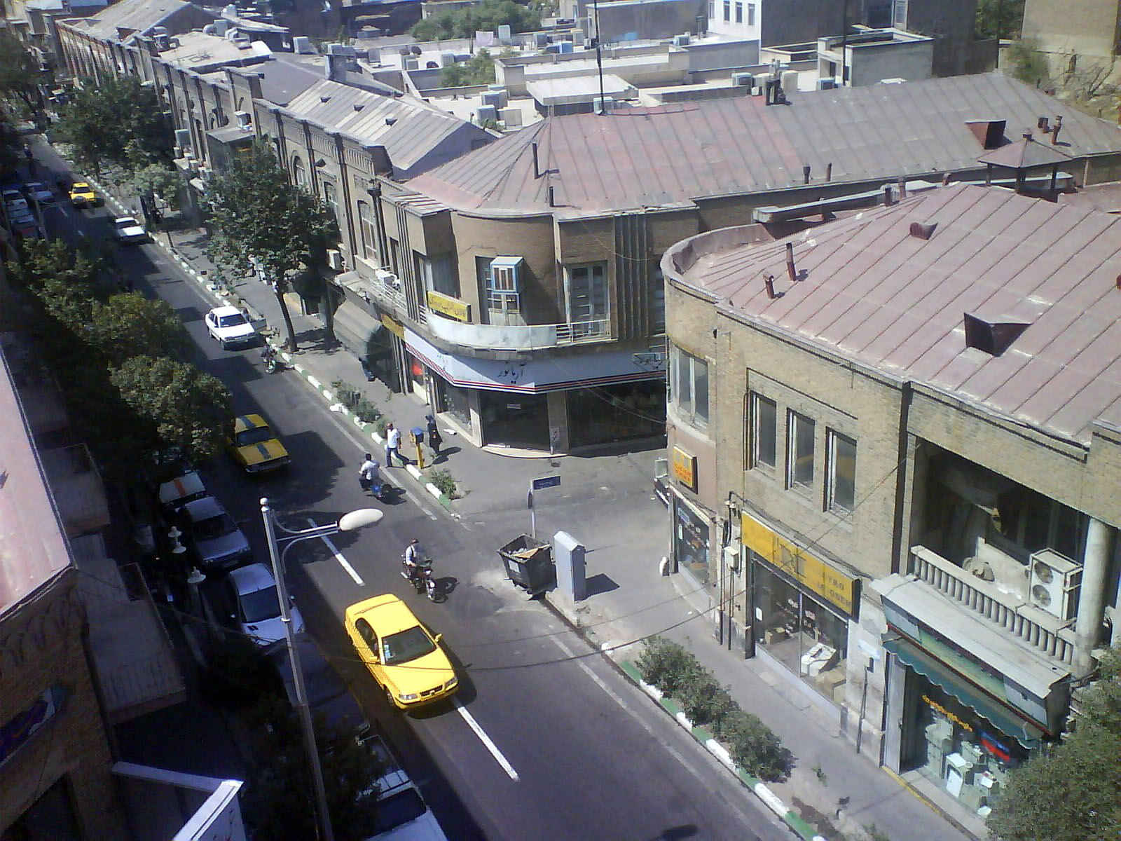 A view of the old art center area of Tehran, Lalehzar Street.